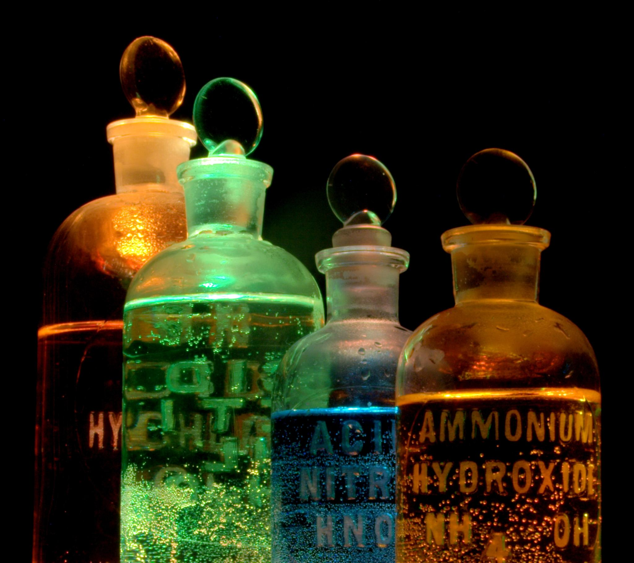 Chemicals in flasks (including Ammonium hydroxide and Nitric acid) lit in different colours